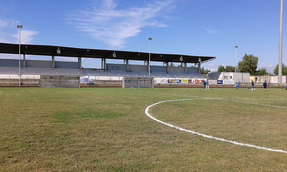 Tribuna Coperta